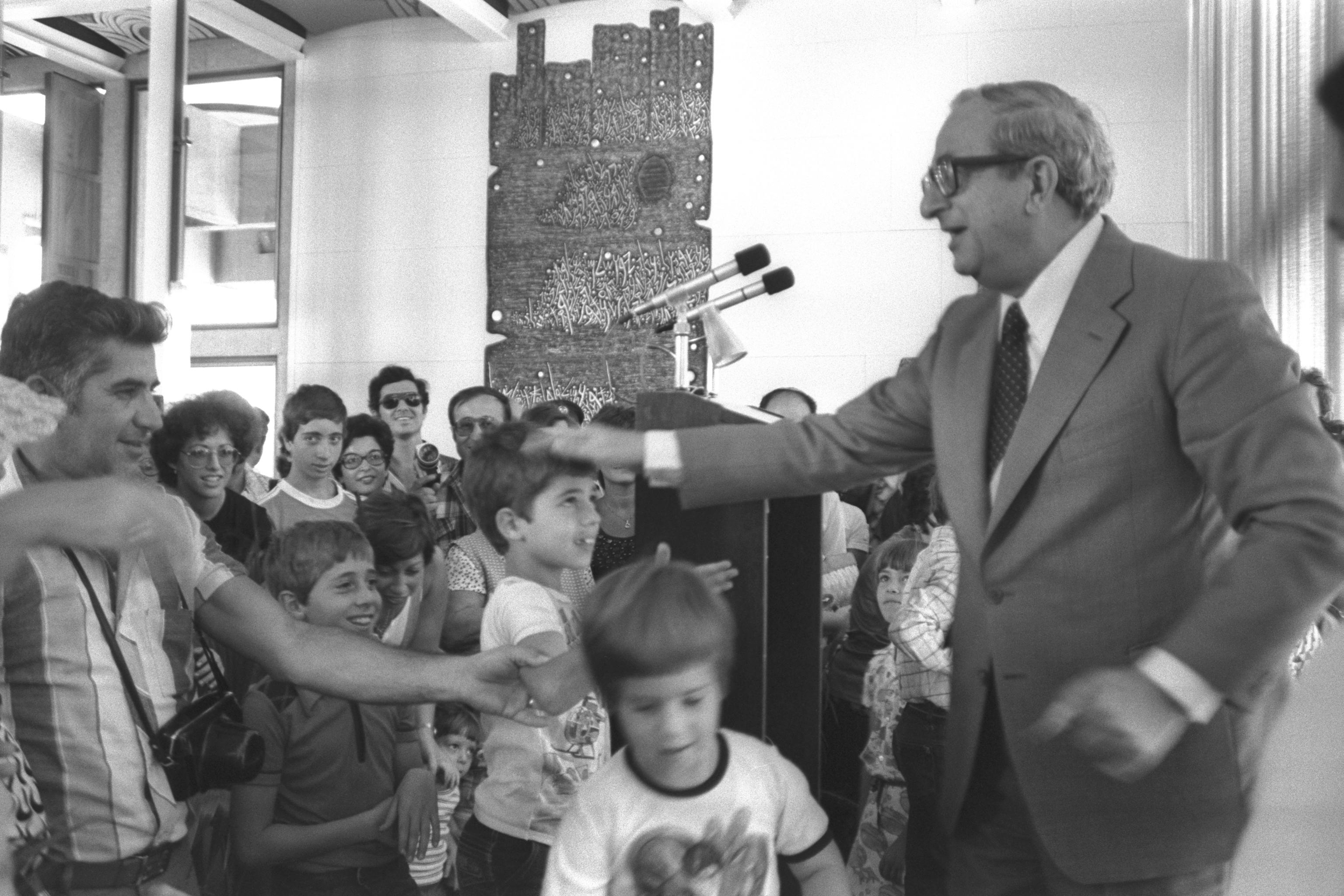 An open house is held at President Yitzhak Navon’s residence during the intermediate days of Sukkot. Photo by Herman Chanania.